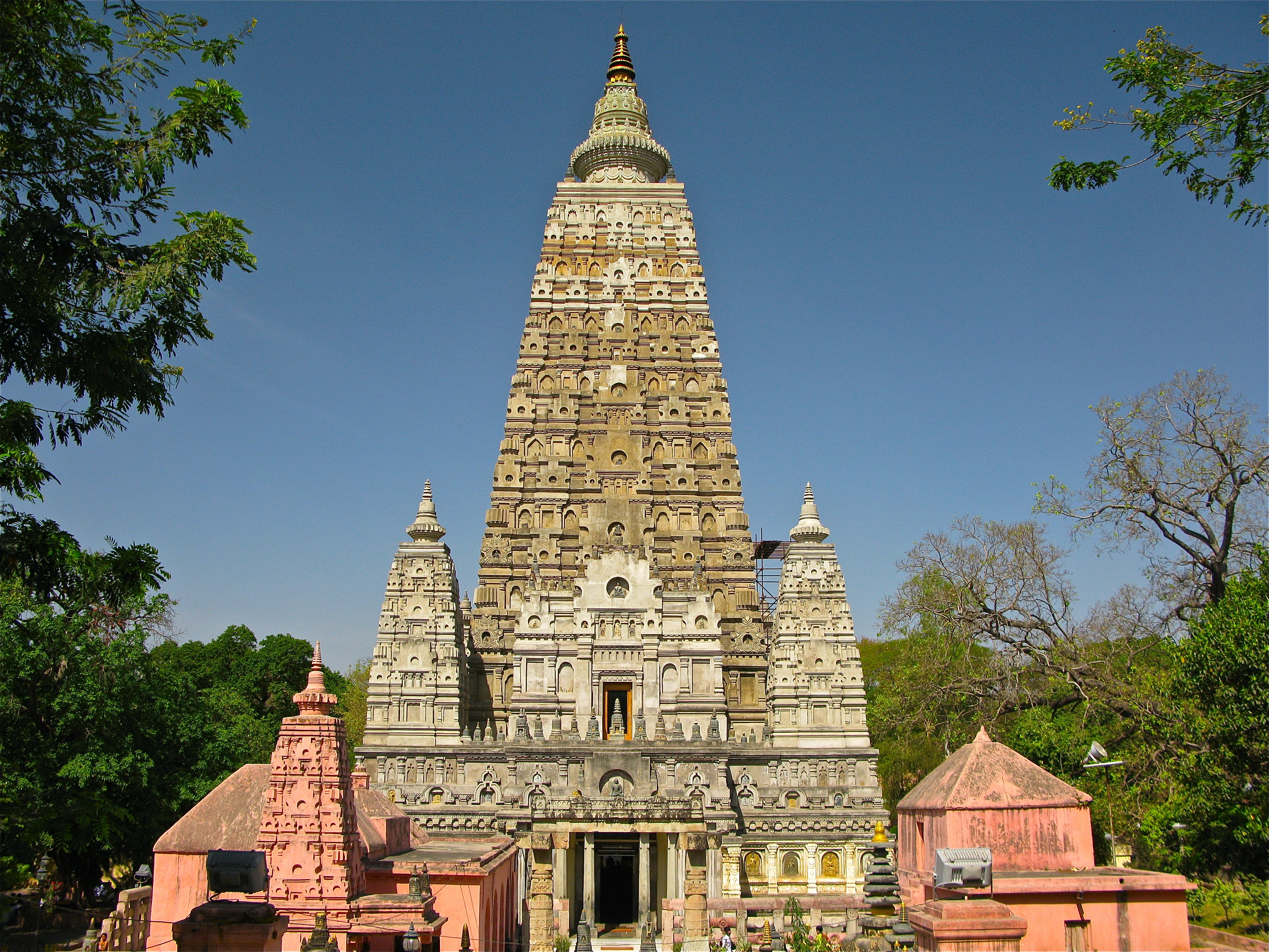 Mahabodhi Temple in Bodh Gaya.